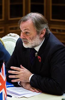 Посол Великобритании в России господин Тимоти Барроу во время встречи с заместителем министра обороны России Анатолием Антоновым